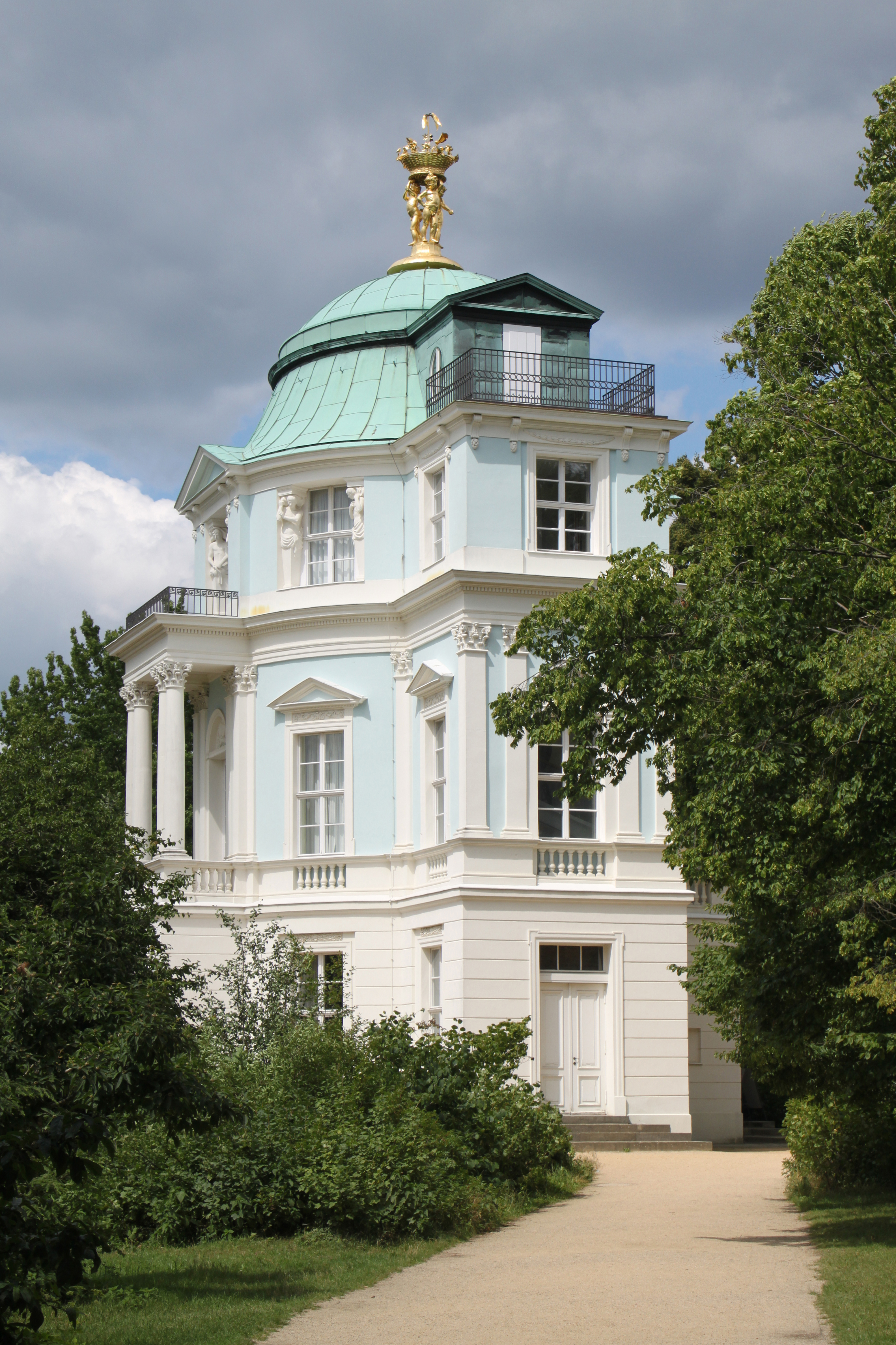 The Belvedere, a formerly teahouse, in the park of Charlottenburg Palace, Berlin, Germany